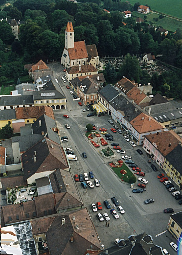 Airial-photo of the main square of Aspang-Markt/Lower Austria.